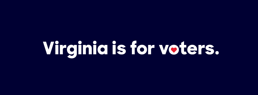 Virginia is for Voters